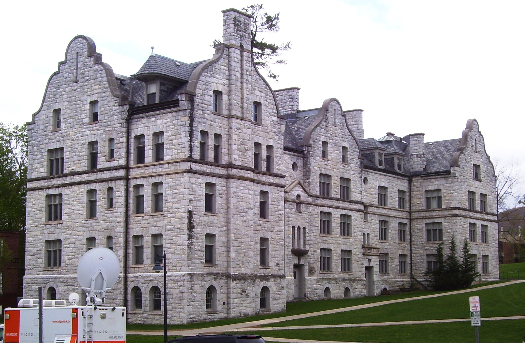 Morgan Hall of Williams College on Main Street in Williamstown, Massachusetts.